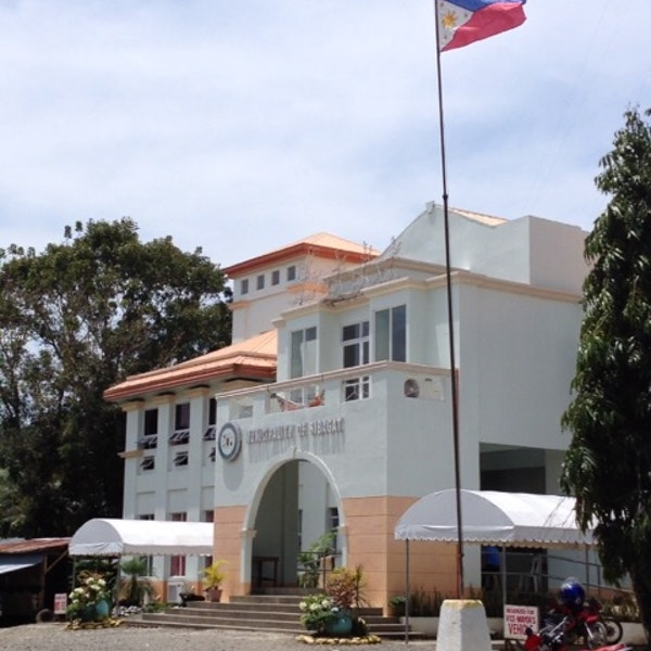 Sibagat town hall facade